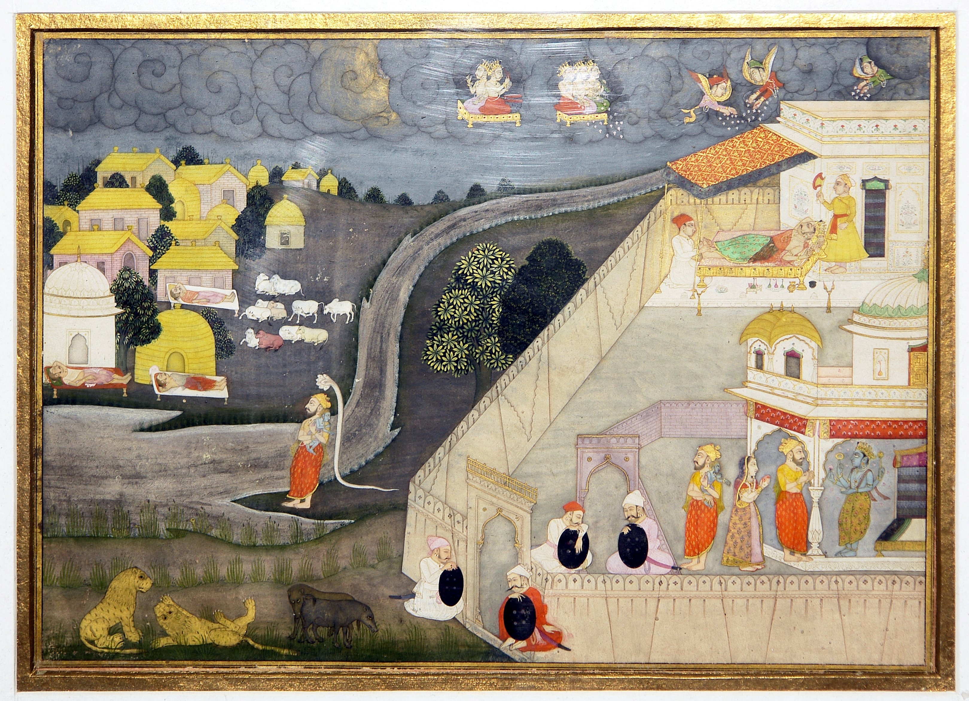 Before the birth of Krishna, Vishnu revealing his divinity to Vasudeva and Devaki. National Museum, New Delhi. Based on the story of the Bhagavata Purana, Bikaner, Rajasthan, circa A.D. 1725, paper, 24 x 32.5 cm.